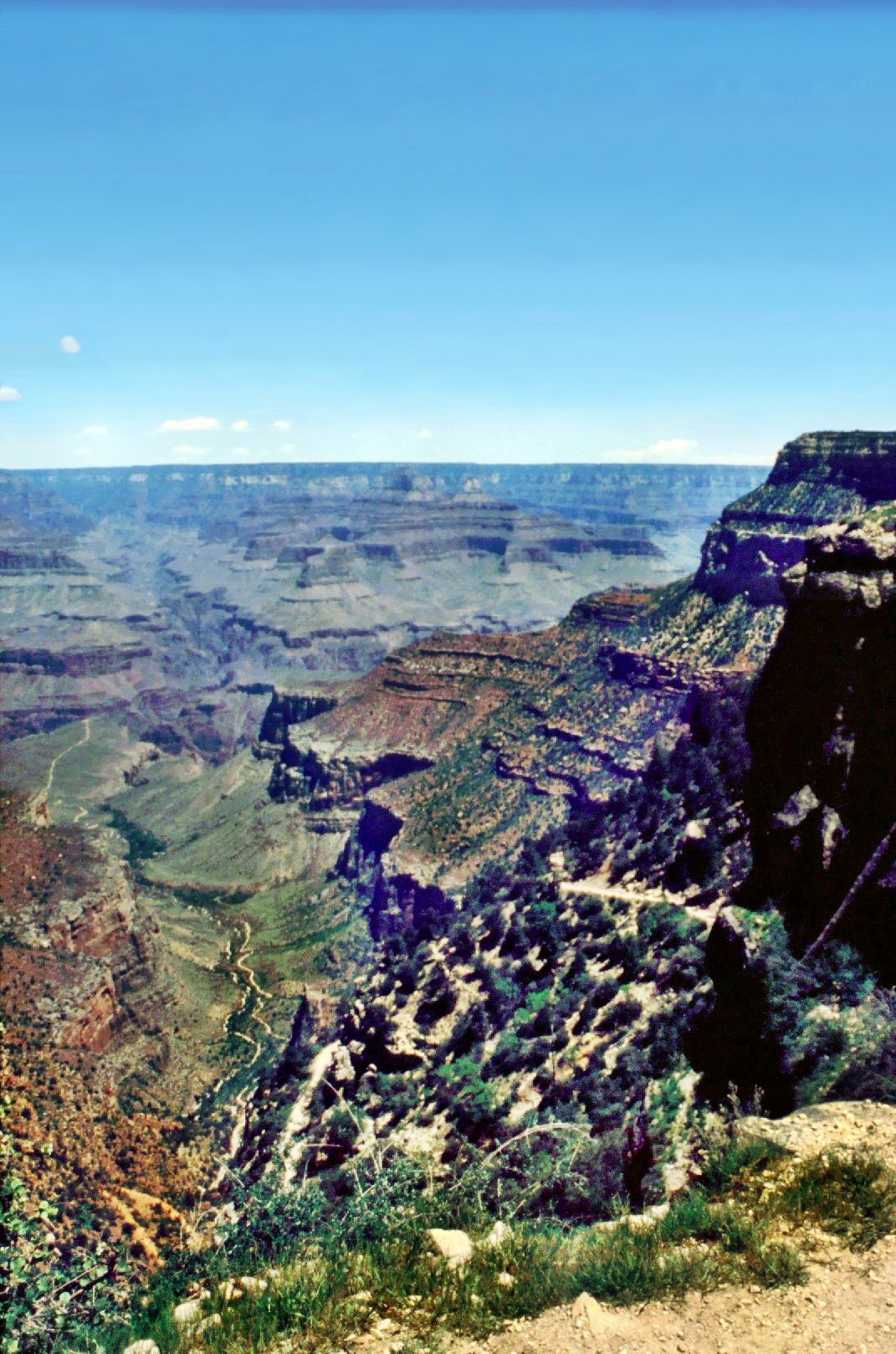 View from Grand Canyon Village down of the trail to Plateau Point and Bright Angel Trail.